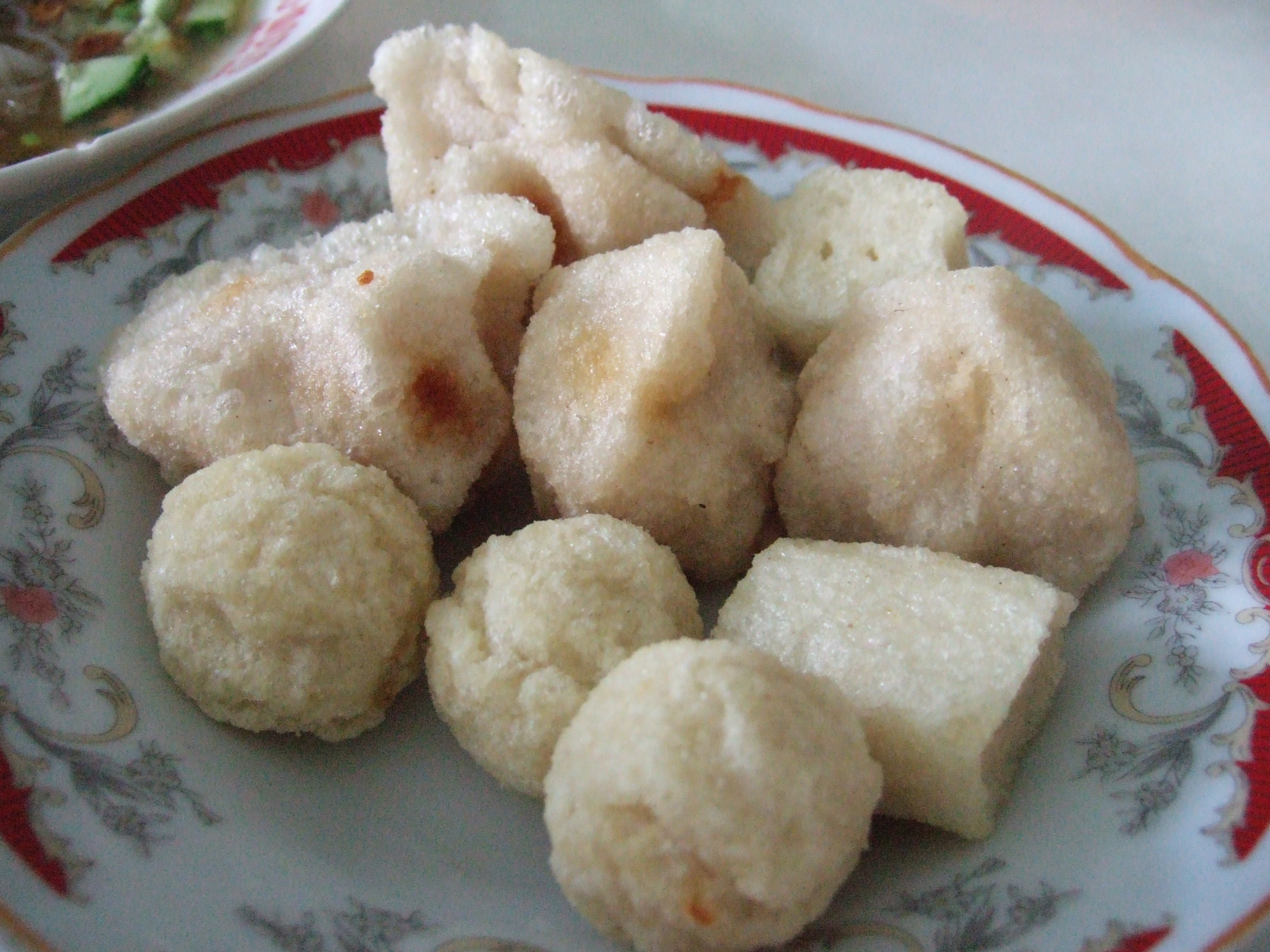 Pempek, fried fish balls